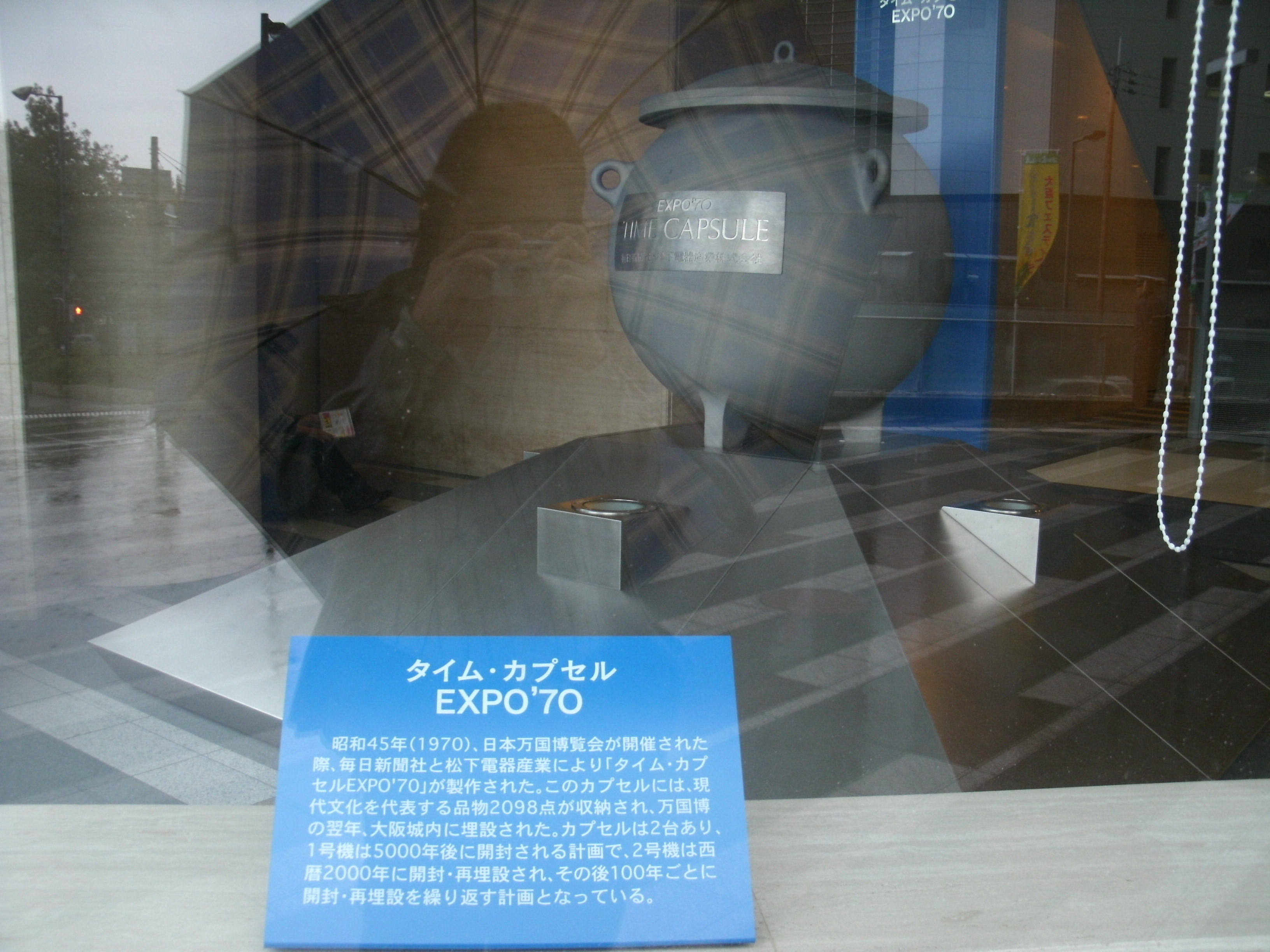 Time Capsule of EXPO70